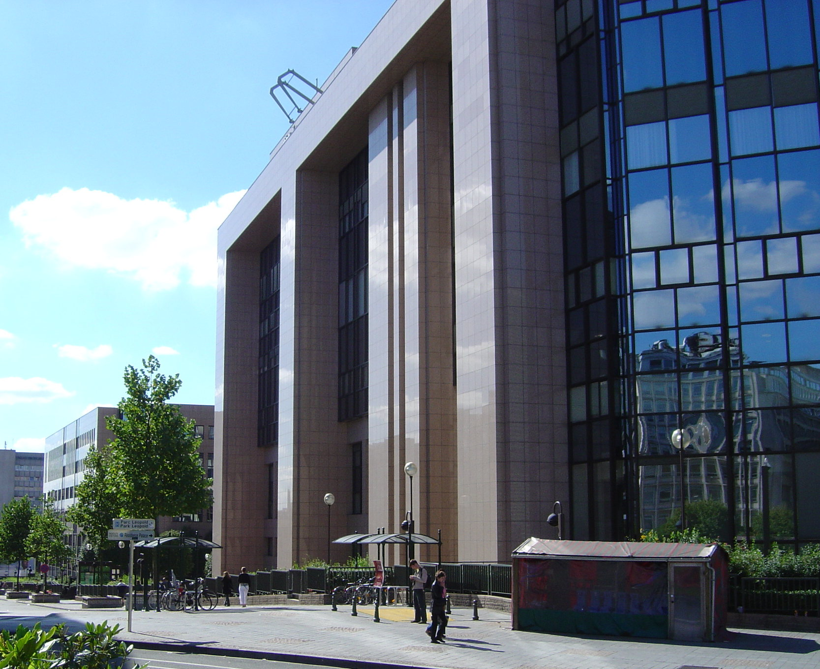 HQ of the Council of the European Union, Justus Lipsius building, eastern side